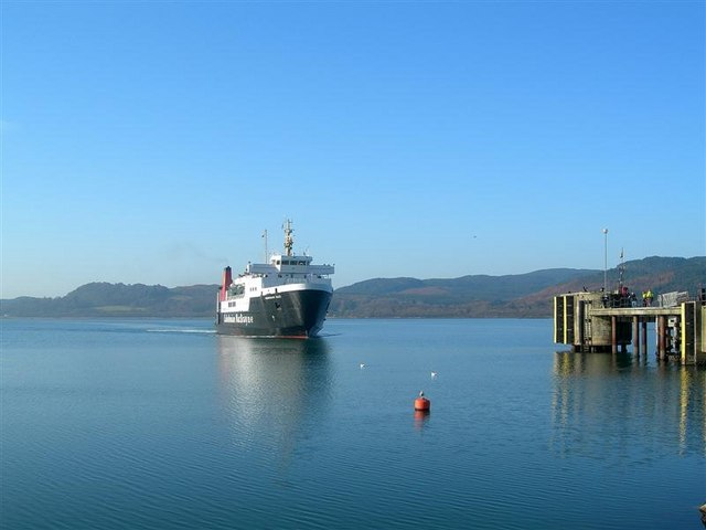 The Calmac ferry MV Hebridean Isles approaching Kennacraig. IMO Number: 8404812 MMSI Number: 232000420 Callsign: GFMJ Length: 86.0m Beam: 16.0m